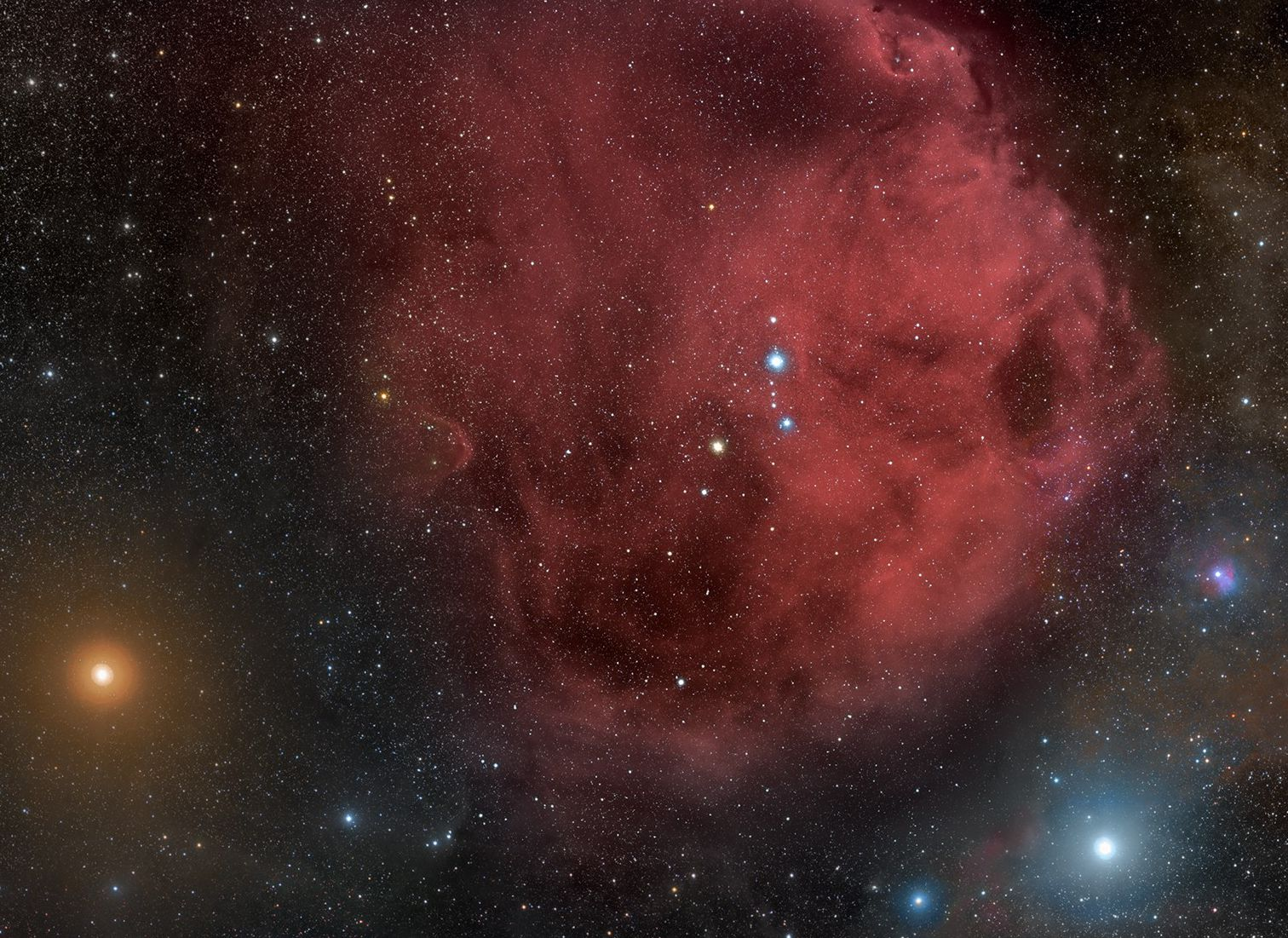 The lambda Orionis region of the constellation Orion, showing molecular clouds and Betelgeuse, as well as gamma Orionis, lambda Orionis, and phi Orionis.